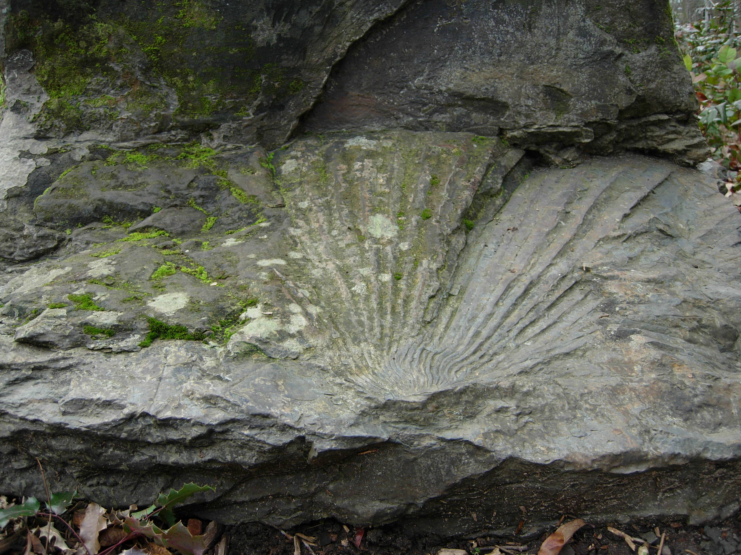 Fossils of Sabalites campbelli palm leaves from the Chuckanut Formation, south of Bellingham, Whatcom County, Washington